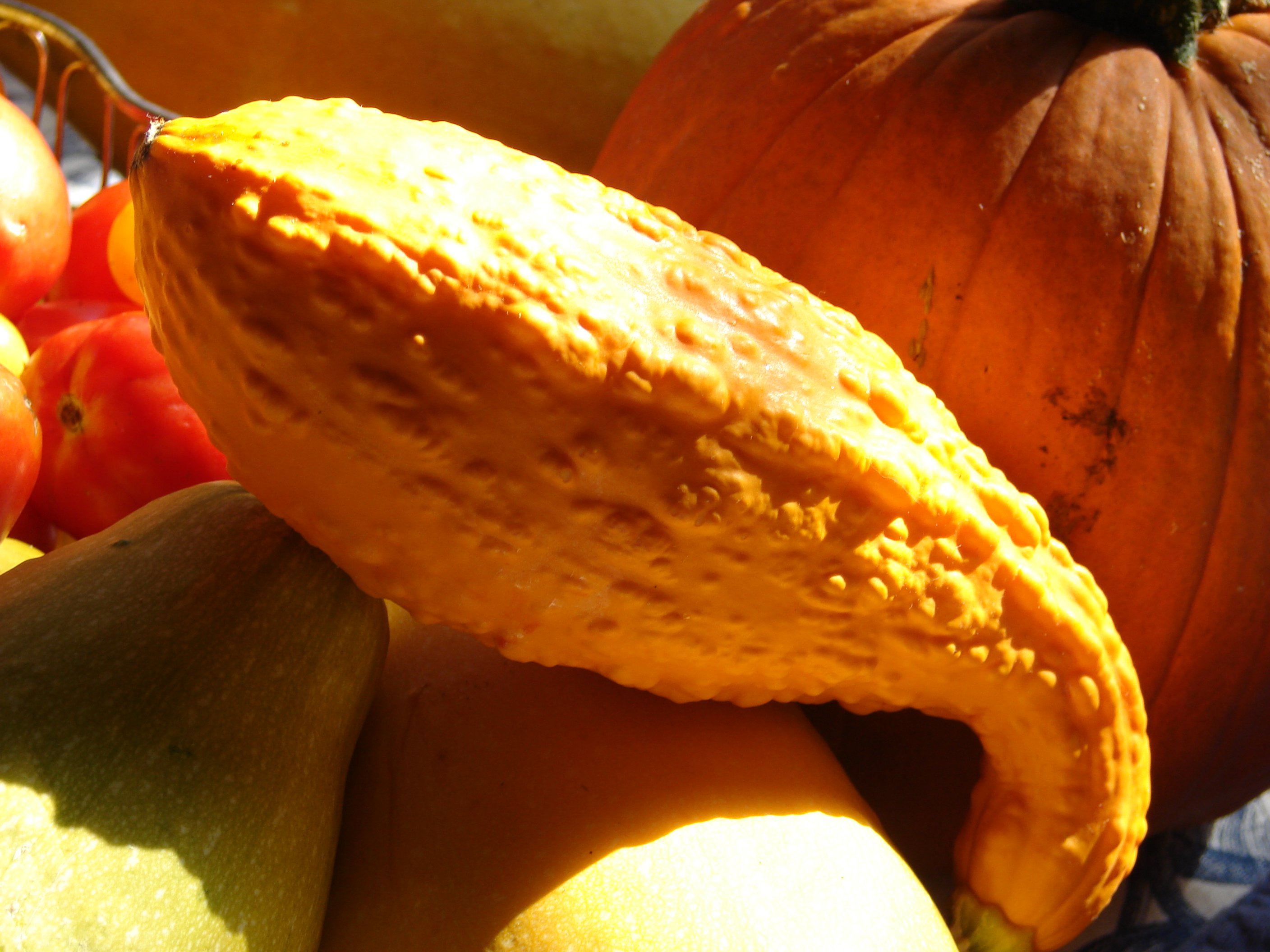 Picture taken by me in September, 2006.